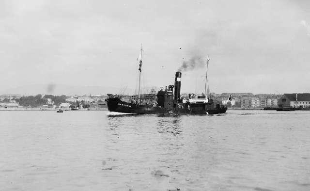 Whale catcher Hektor II